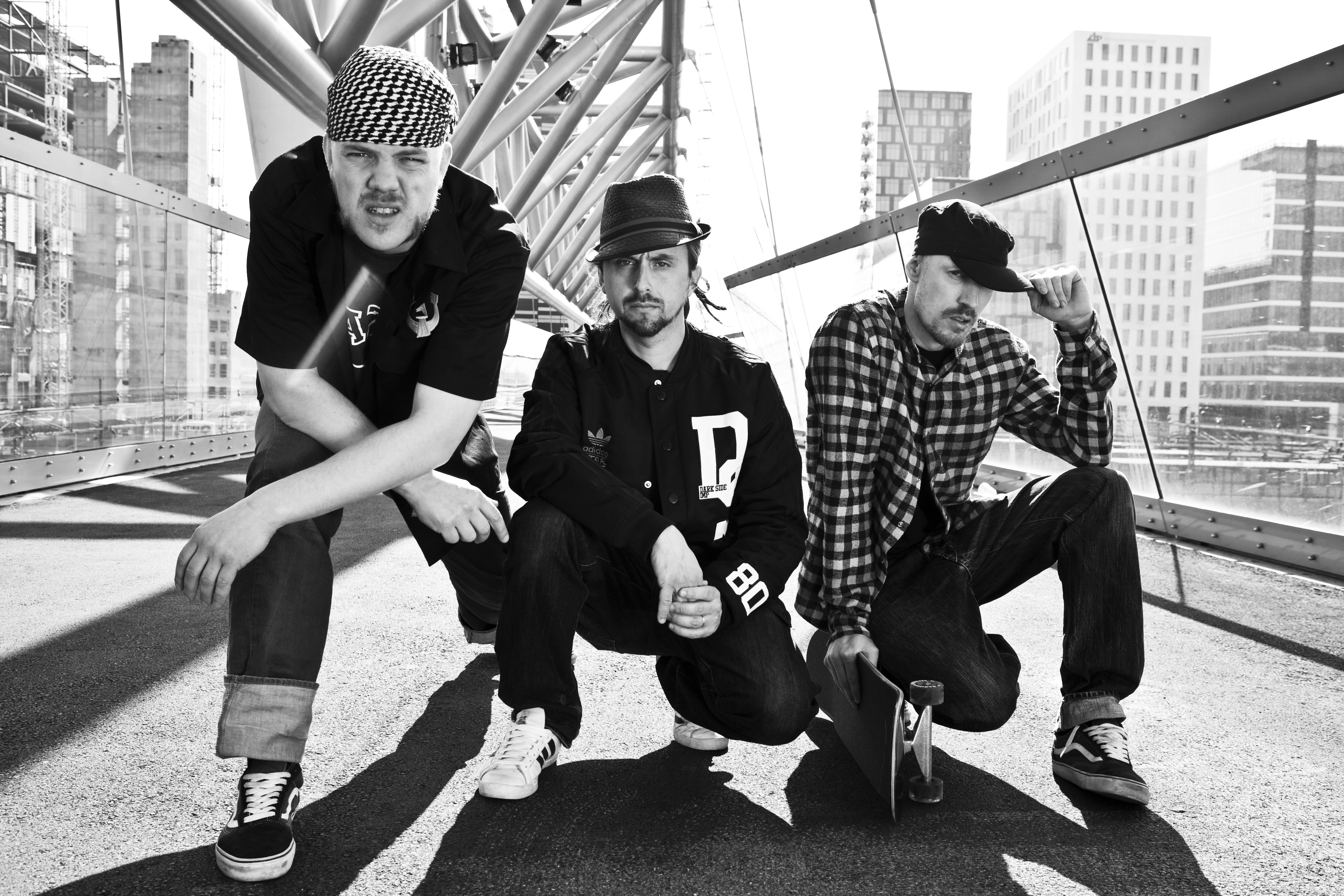 The three members of Norwegian rap group "Gatas Parlament". From left: Elling, Don Martin and Jester.